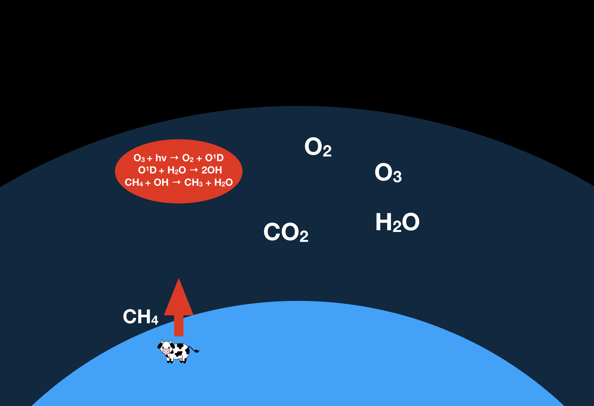 Biogenic methane production contributes the majority of methane flux on a planet with life. The main methane sink is shown in the red oval in the atmosphere.